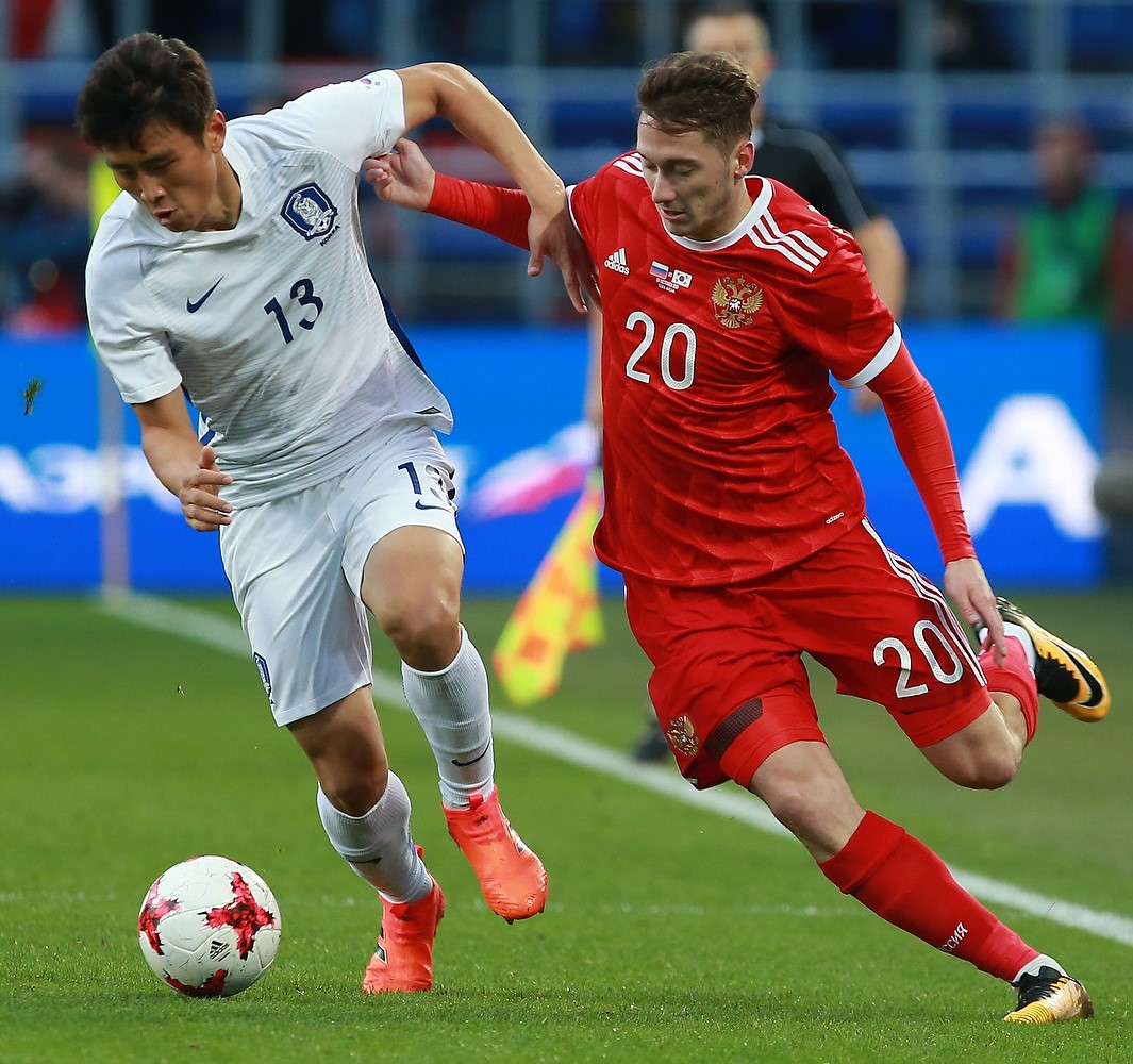 Koo Ja-cheol, Anton Miranchuk